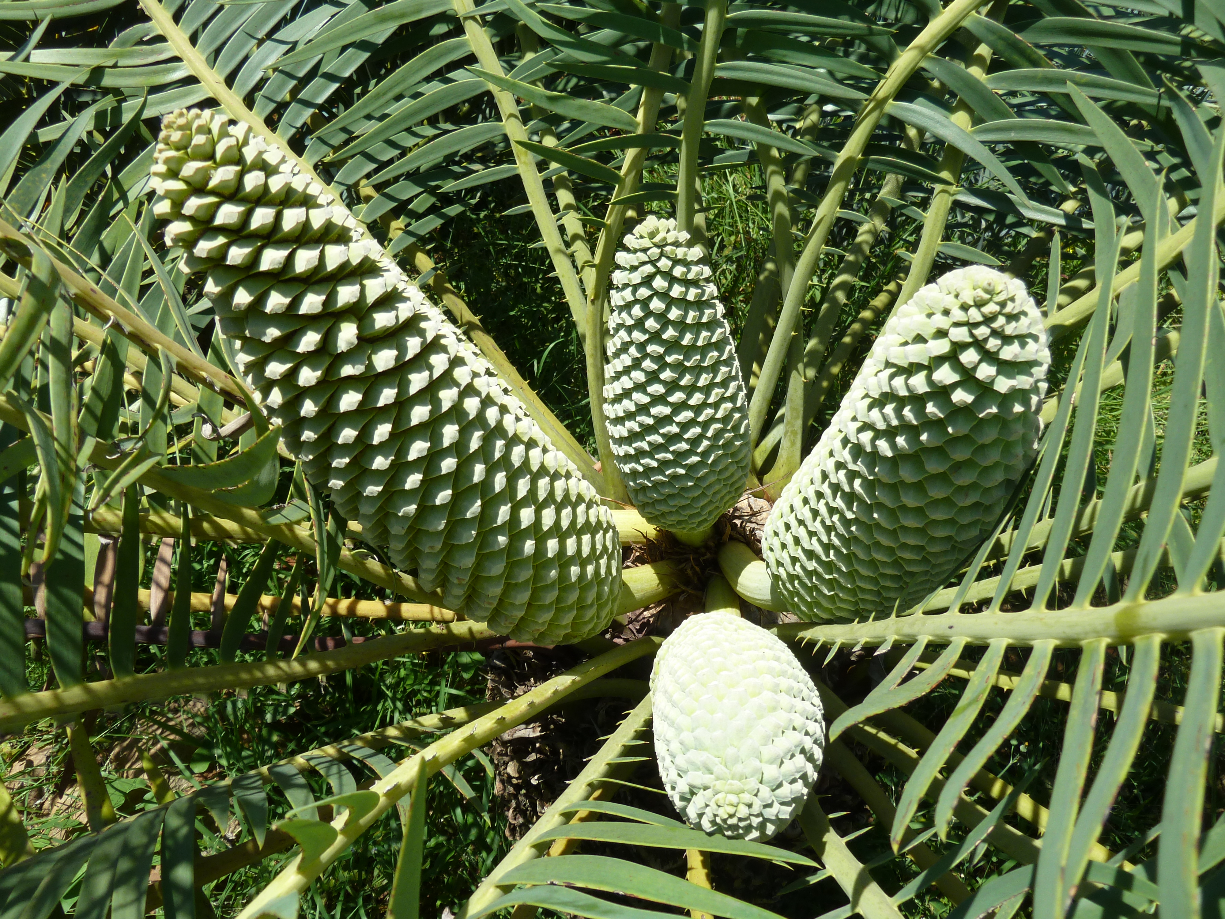 Cones of a Lydenburg cycad in the Manie van der Schijff Botanical Garden, Pretoria, South Africa